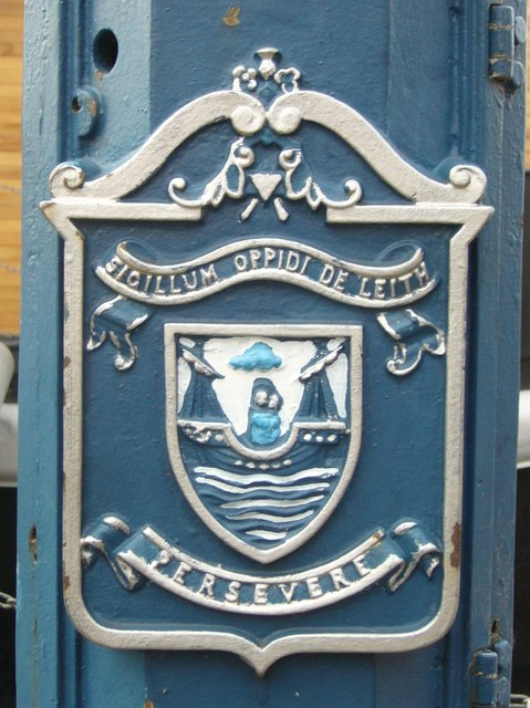 Leith Harbour lamppost detail. Leith has some fine specimens of distinctive street furniture, including elaborate Victorian lampposts. This emblem appears on a lamppost erected in the 1990s.